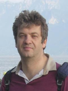 Portrait of M.L.Gorodetsky